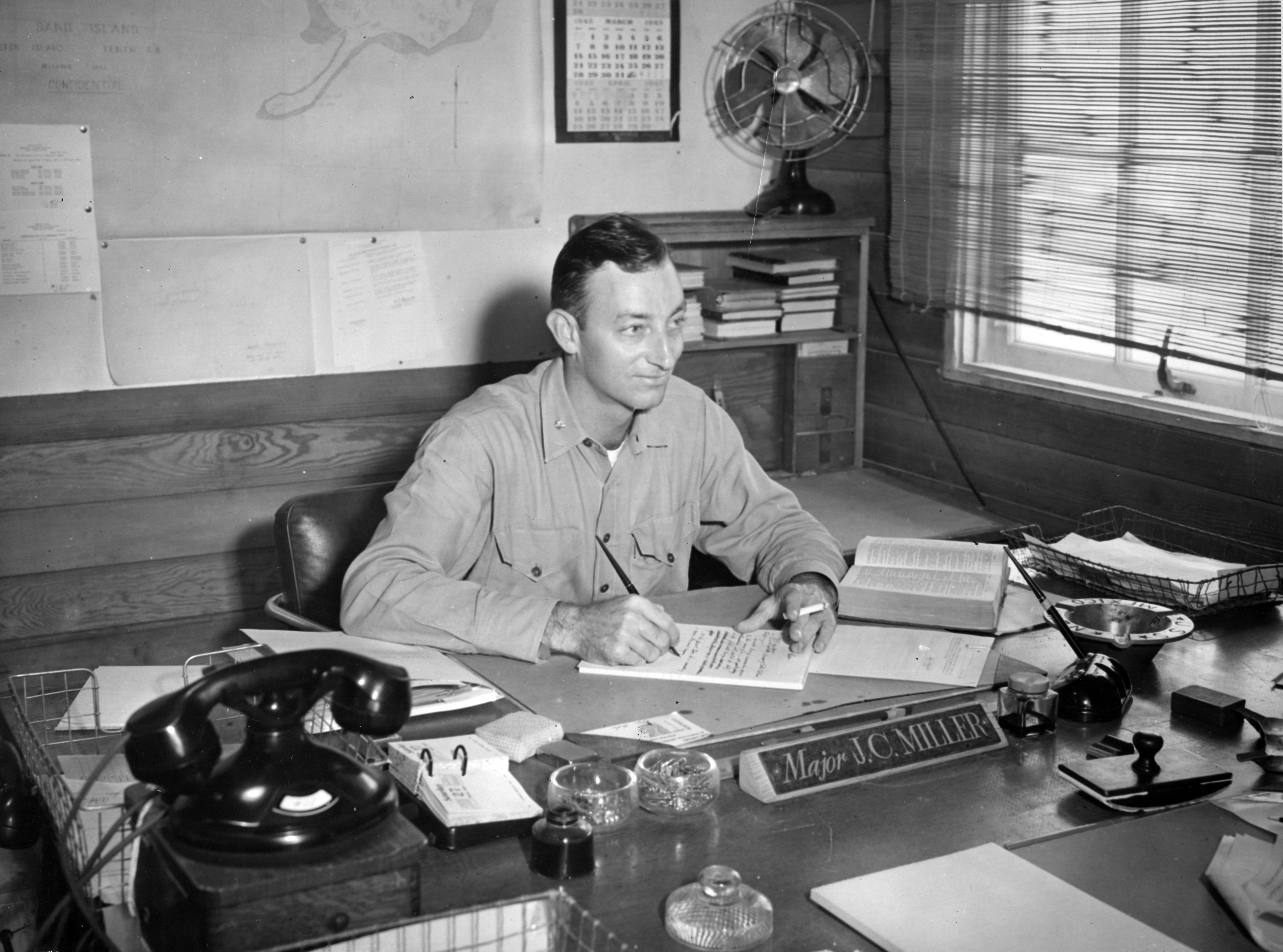 John Carroll Miller Jr. (December 25, 1912 - July 29, 2000) was a decorated officer in the United States Marine Corps with the rank of Brigadier general. A veteran of the Pacific War, he was wounded twice and received decorations for valor on Saipan and Okinawa. He remained in the Marines and retired as Brigadier general and Commanding general, Landing Force Training Command, Atlantic.